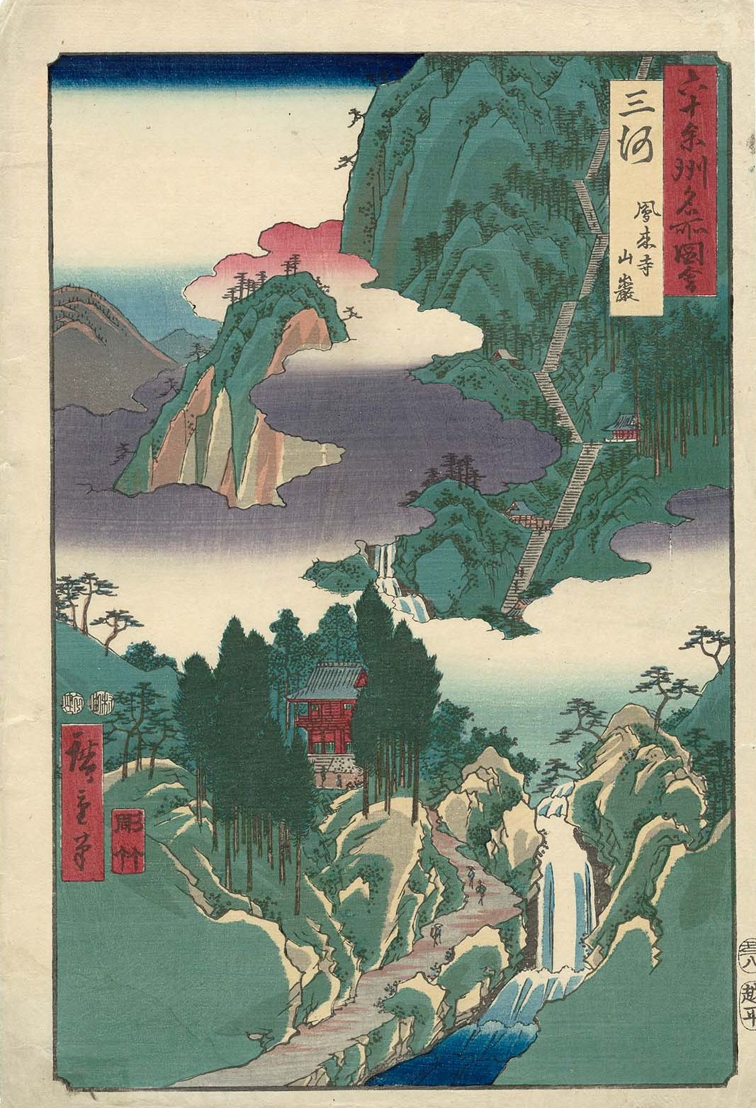 Part of the series Famous Places in the Sixty-odd Provinces, No. 10 (Tōkaidō group)